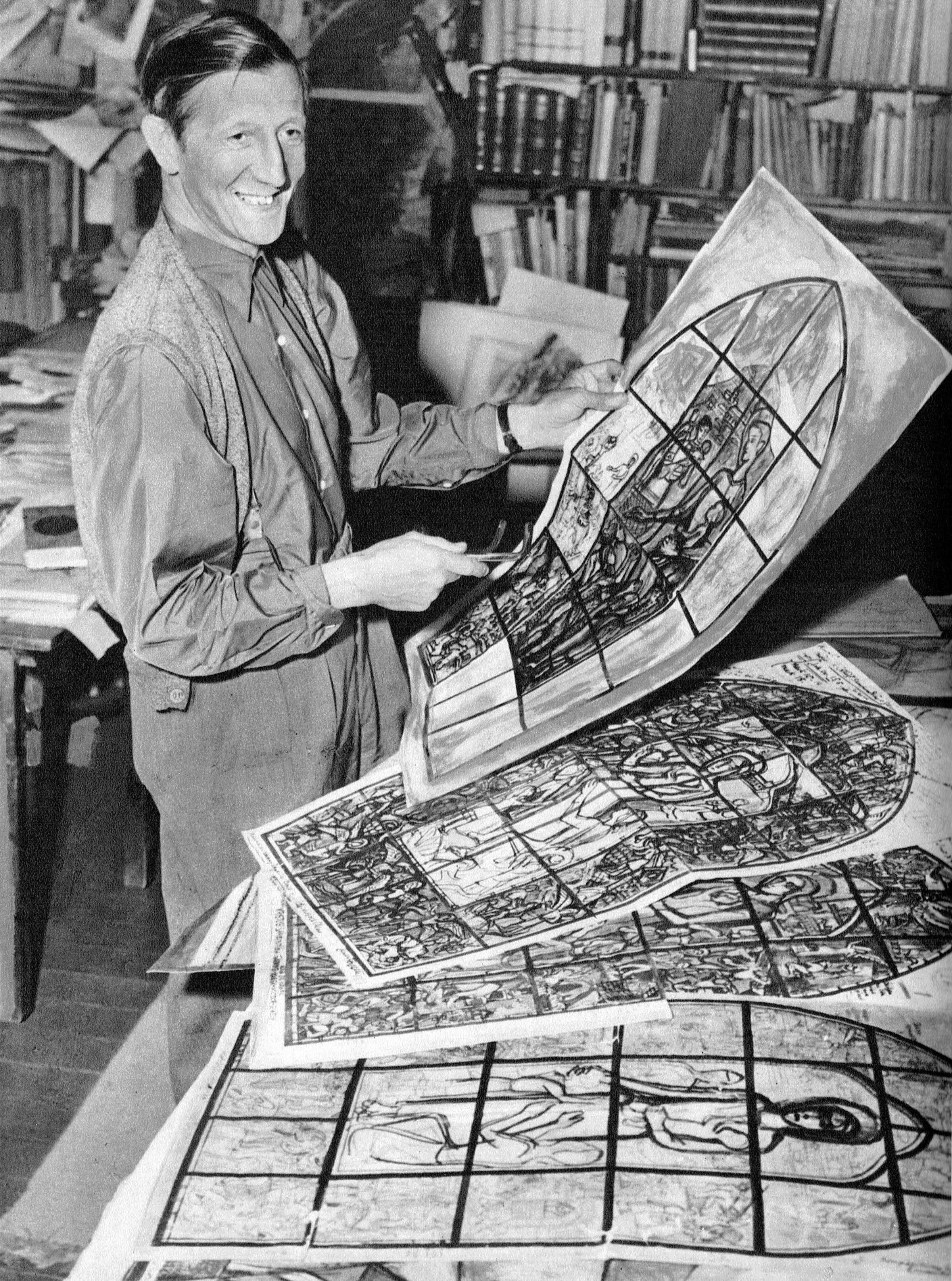 Einar Forseth (1892-1988) Swedish painter